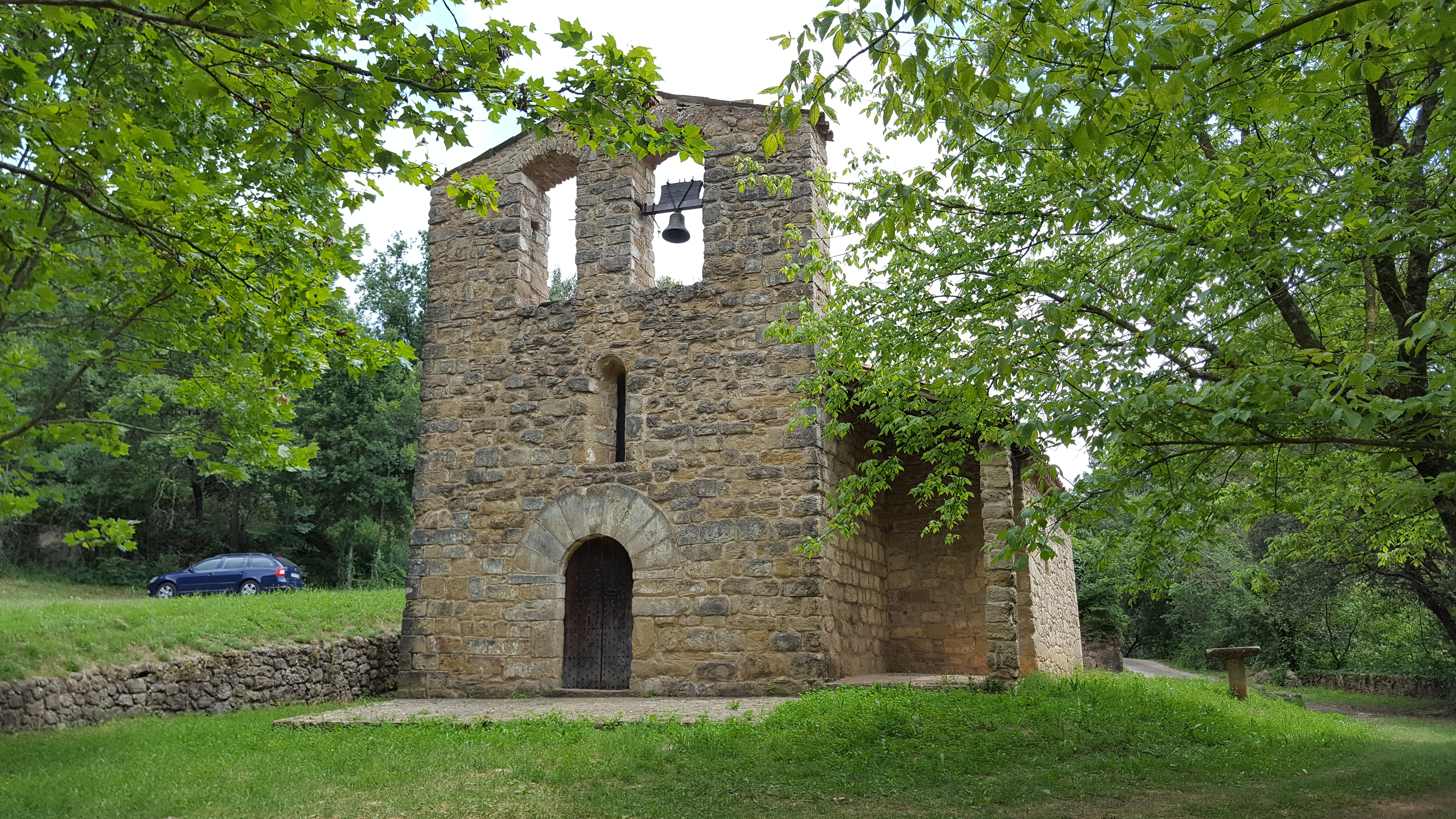 Sant Joan dels Balbs, Vall d'en Bas, Catalonia, Spain